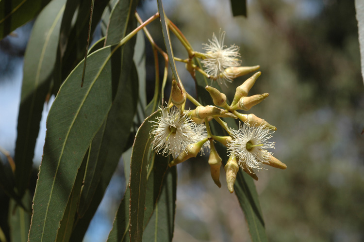 Flowers and buds of Eucalyptus fibrosa in the Waite Arboretum, Adelaide, South Australia